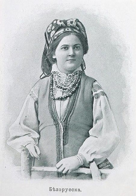 Byelorussian